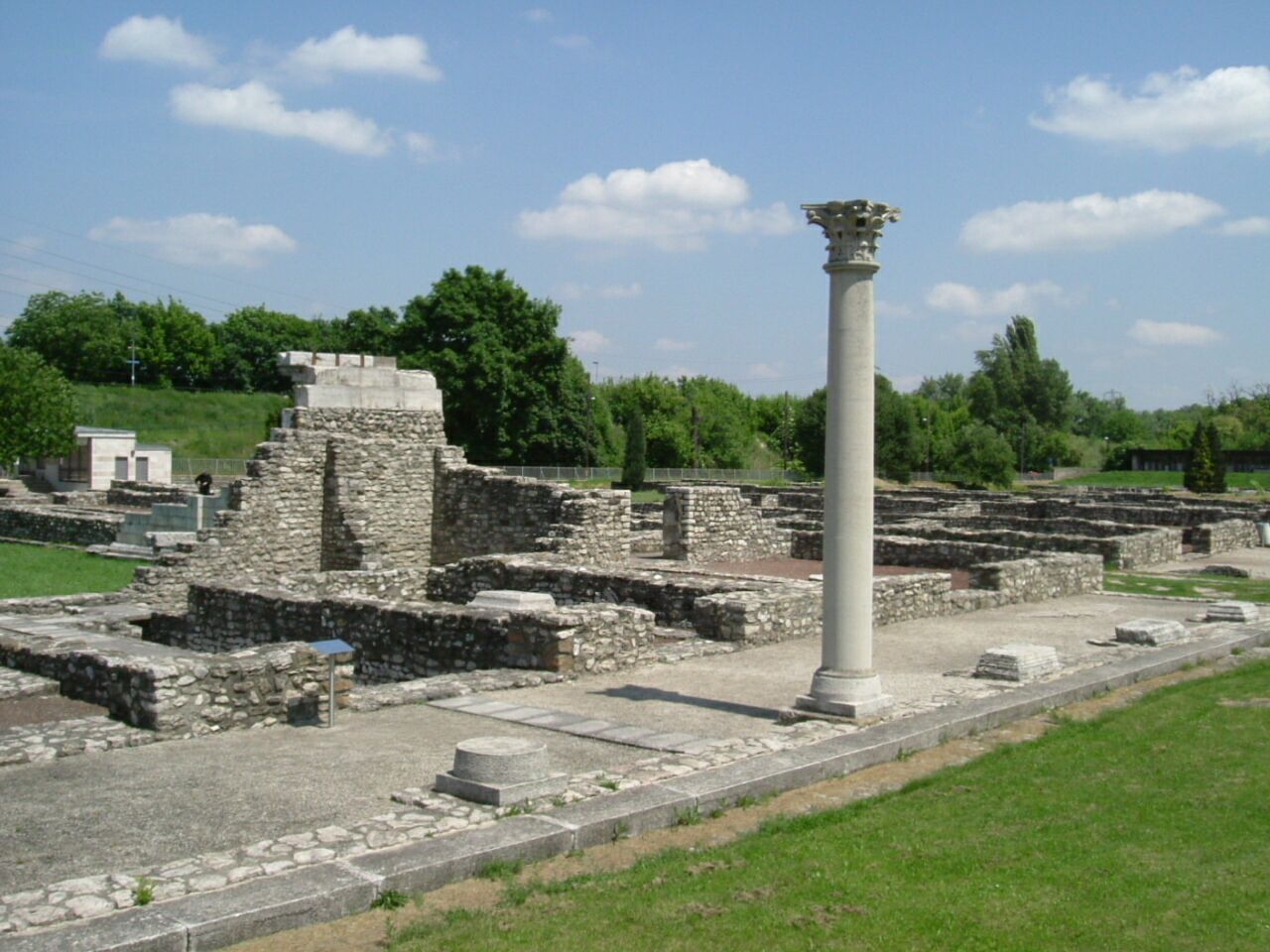 Aquincum, Budapest, Hungary: Ruins of the Capital of Pannonia